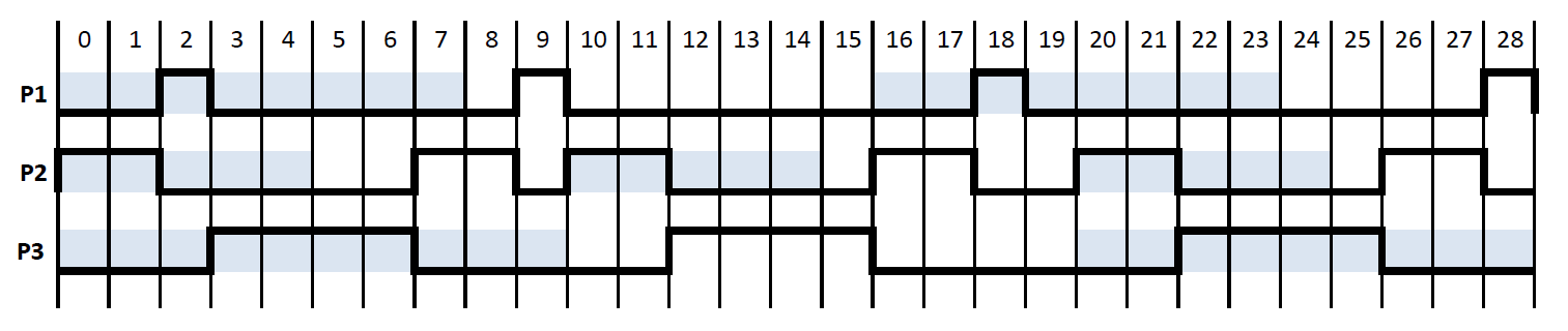 Timing diagram showing an example of Earliest Deadline First real-time process scheduling for three periodic processes: P1, with an execution time of 1 and a period of 8; P2, with an execution time of 2 and a period of 5; and P3, with an execution time of 4 and a period of 10. The columns represent time slices, with time increasing to the right. The alternating blue and white shading indicates each process's periods, with deadlines at the color changes.